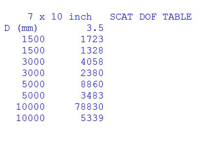 SCAT camera depth of field table